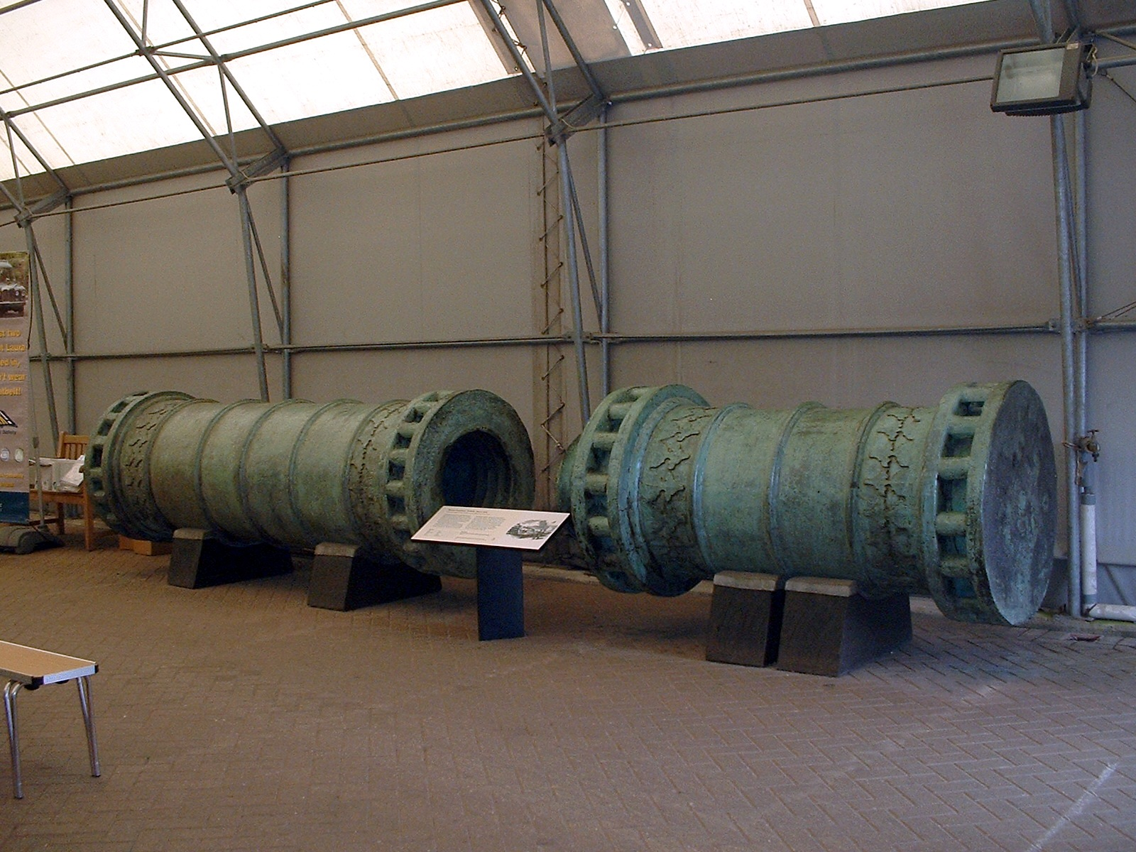 The Dardanelles Gun : is a siege gun dating from soon after the fall of Constantinople in 1453. It is cast in bronze and was made in two parts: the barrel which holds the shot and the chamber which holds the charge. The two parts screw together and there is a ring of sockets at the ends of each section, these take levers to facilitate screwing and unscrewing the parts. Overall length is 5.2 m and it weighs 16.8 tonnes. It fires a stone ball of about 300 kg some 1600 m. The rate of fire was very slow - about 15 rounds per day. Currently in the Royal Armouries at Fort Nelson, Portsmouth, England.